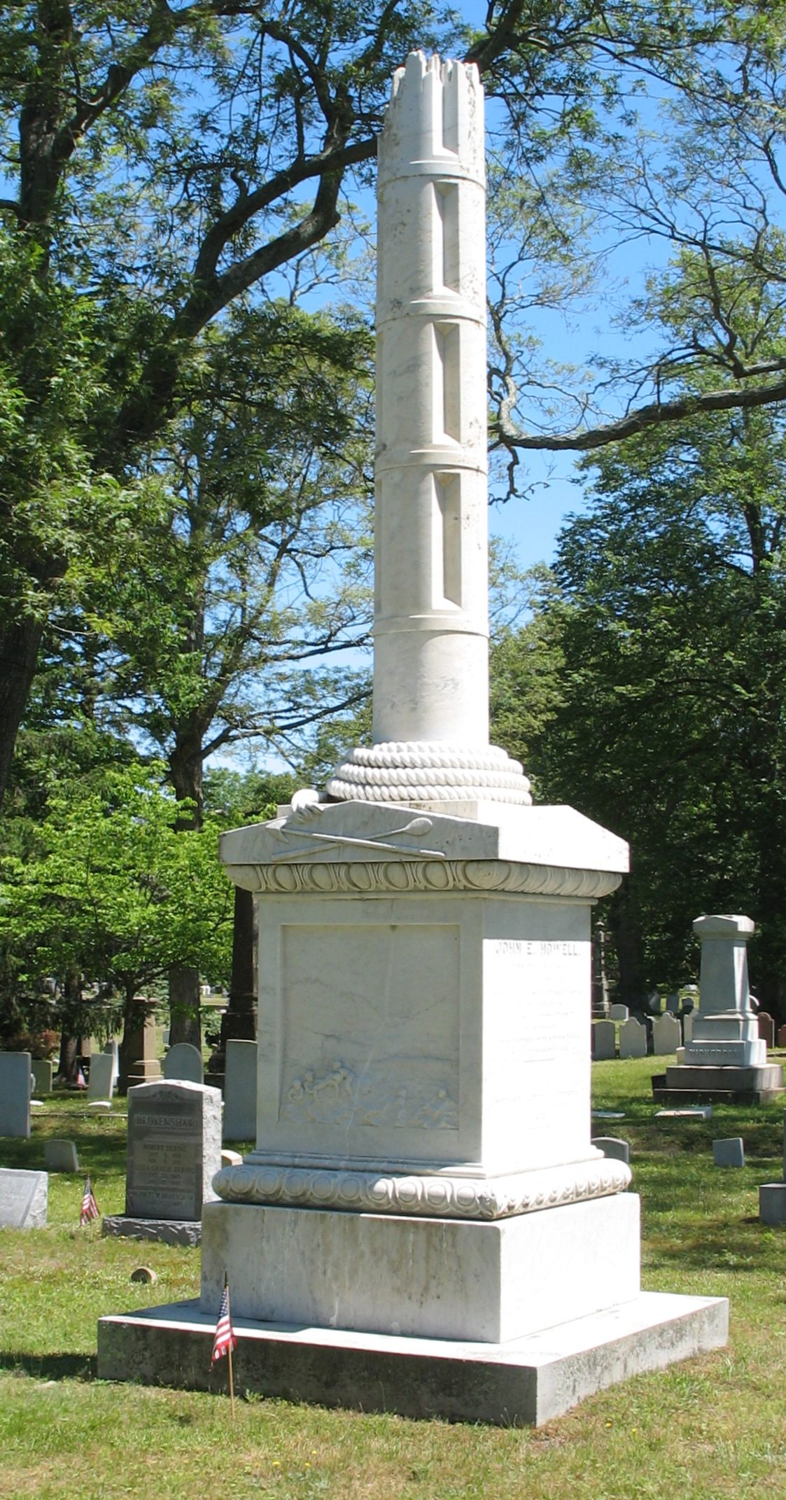 Broken mast monument to captain killed while whaling in Sag Harbor, New York. Photo by poster in June 2007.